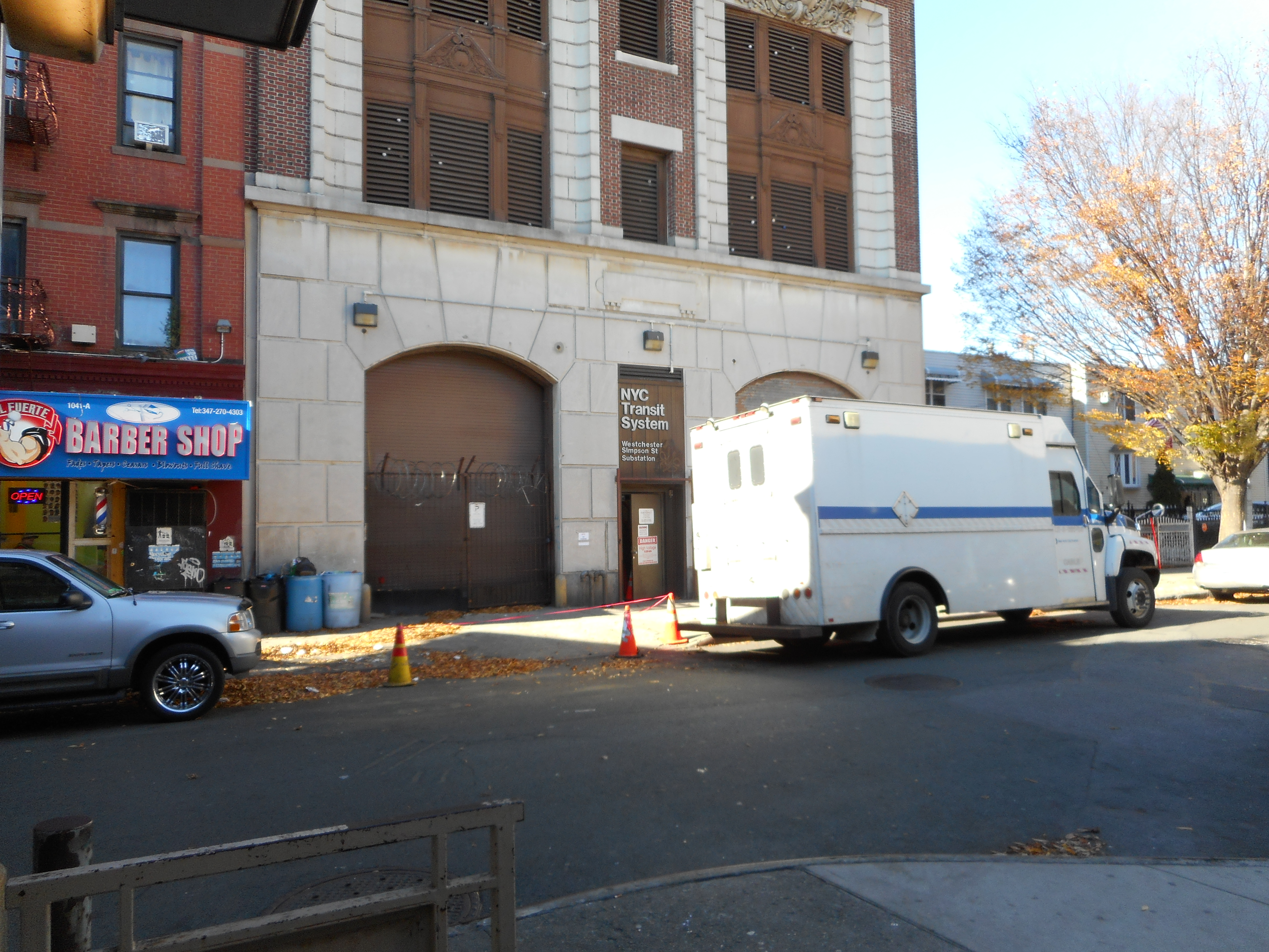 The Interborough Rapid Transit Substation Number 18 in the Bronx, which is on the National Register of Historic Places along with the Simpson Street Subway Station on the IRT White Plains Road Line.